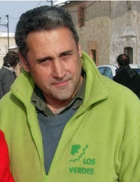 Esteban Cabal, photo taken in Segovia (11 January 2009)